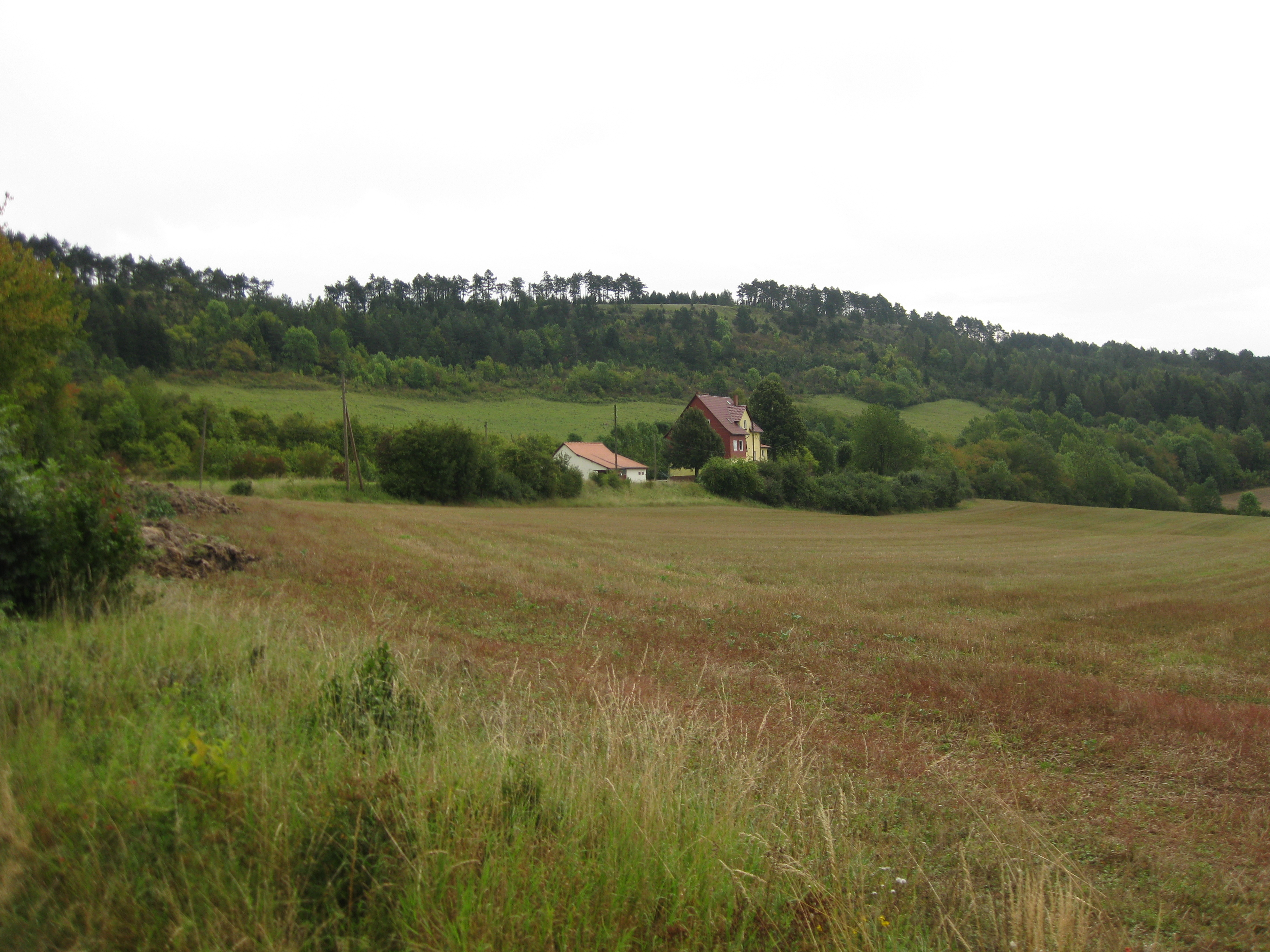 Höheberg with Dieteröder Klippen